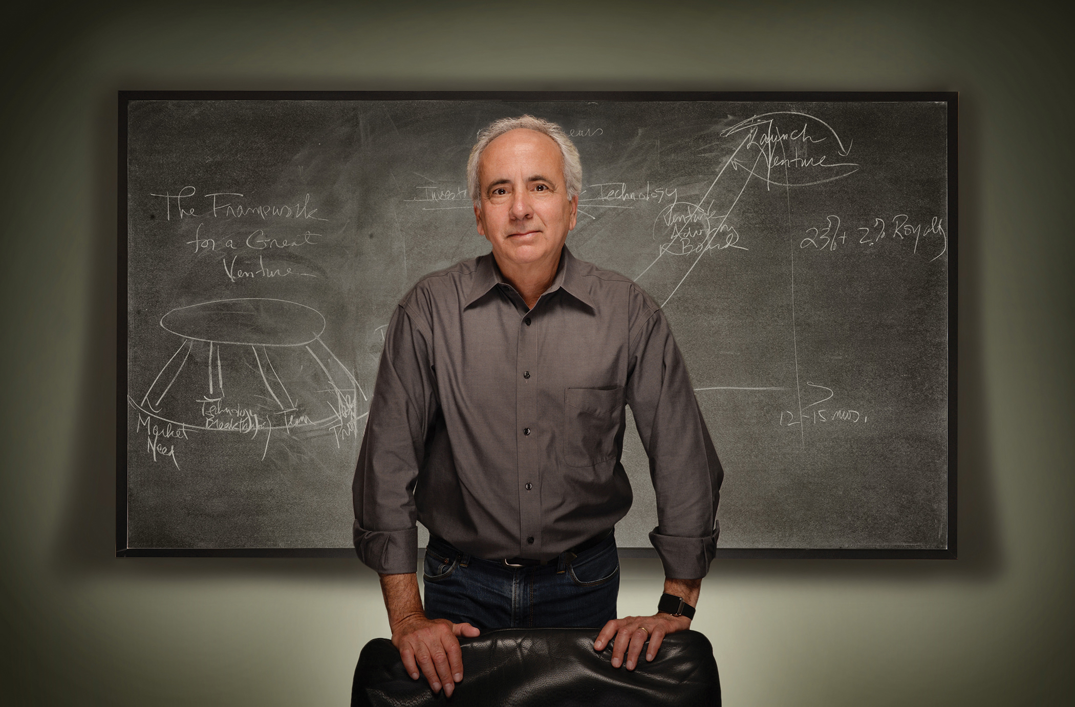 This photo was taken of Norman Winarsky at SRI International headquarters Menlo Park, CA in 2015.